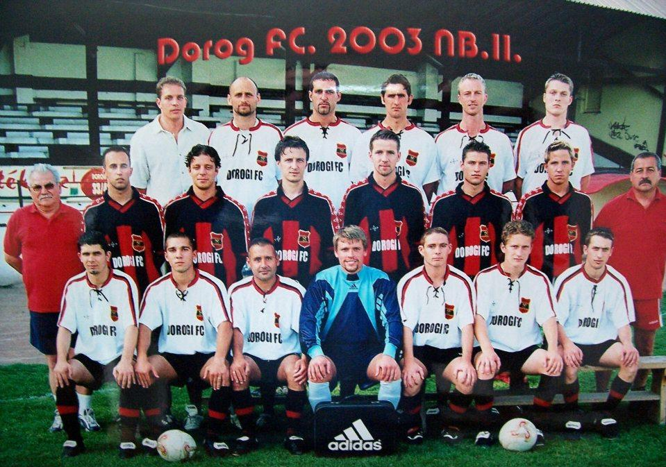 The last second class team in 2003